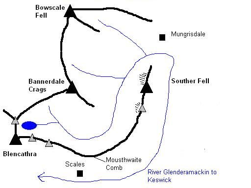 Sketch map of Souther Fell, English Lake District